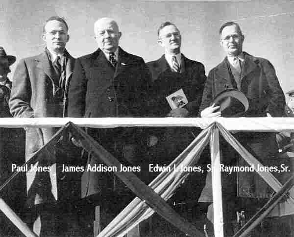 Photo of J.A.J I and his sons Edwin L. Jones, Sr. and Raymond Jones, Sr. Likely taken during World War II, as Raymond Jones, Sr. died in 1950.